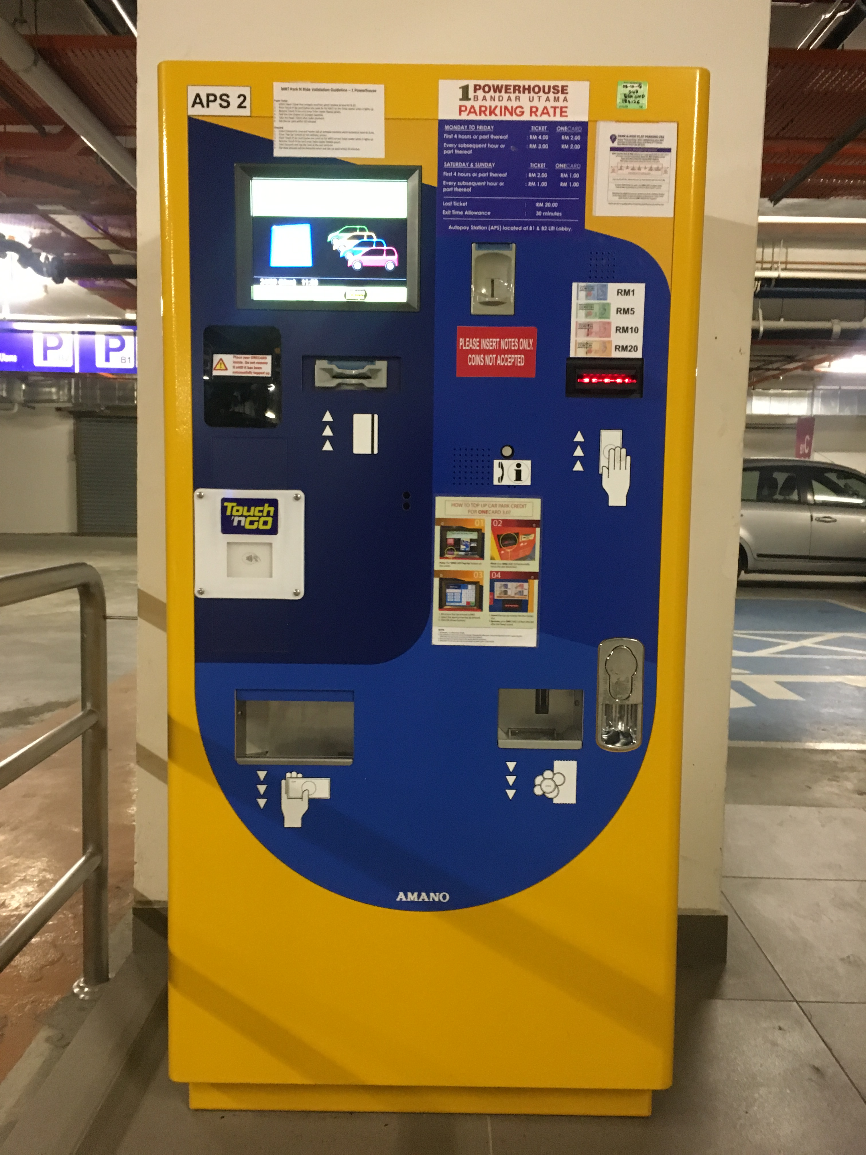 Parking payment machine belonging to Bandar Utama City Corporation Sdn Bhd, which has a Touch 'n Go reader to verify MRT users who then pay a flat rate of 4 ringgit.